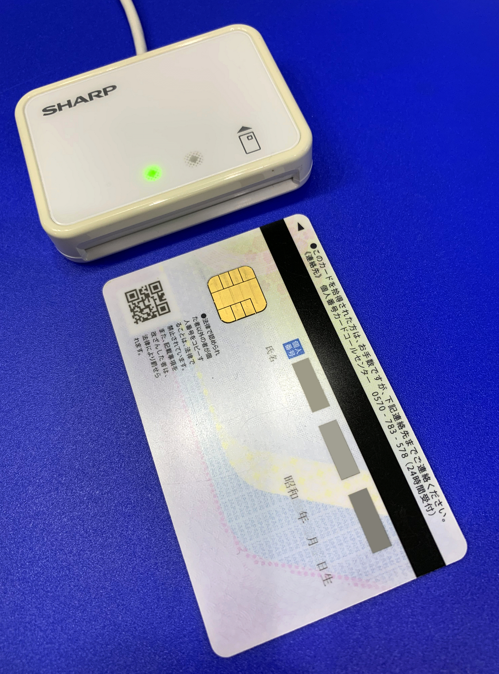 IC Card Reader / Writer